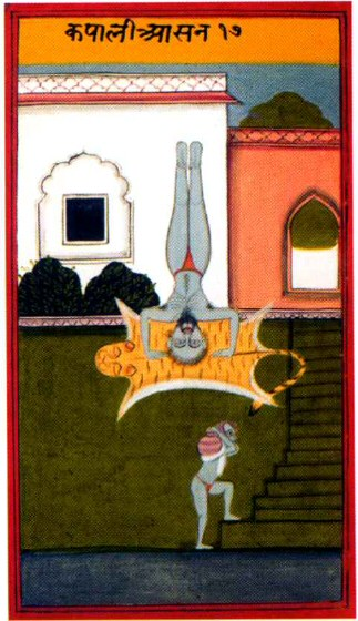 Illustration of Kapala Asana (headstand) from manuscript of Joga Pradīpikā, 1830.